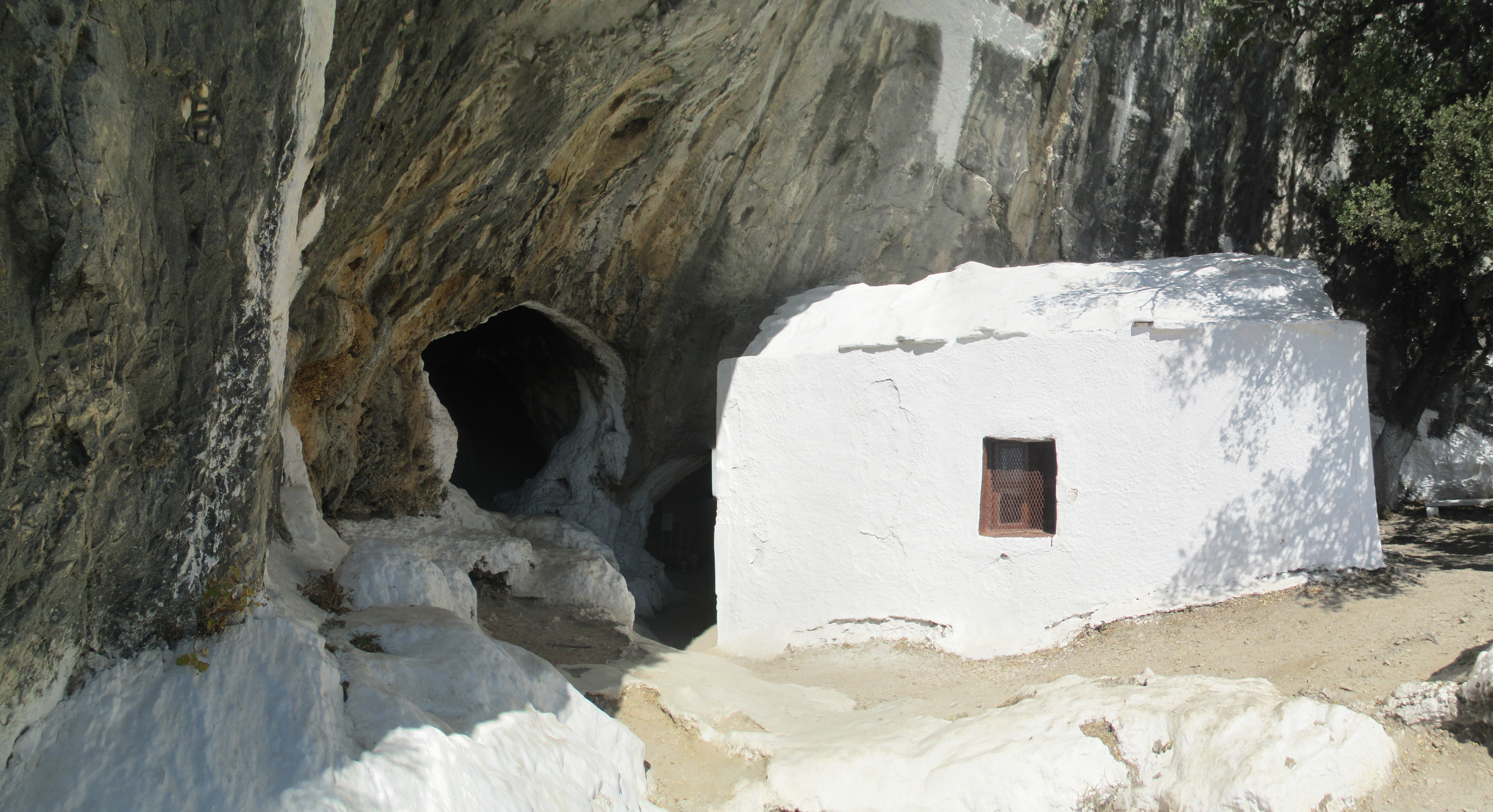 Panagia Sarantaskaliotissa church and its caves above Pythagoras Cave, Mount Kerkis, Samos, Greece. Note: These caves are not the "real" Pythagoras Cave, which is located a bit lower in the slope.